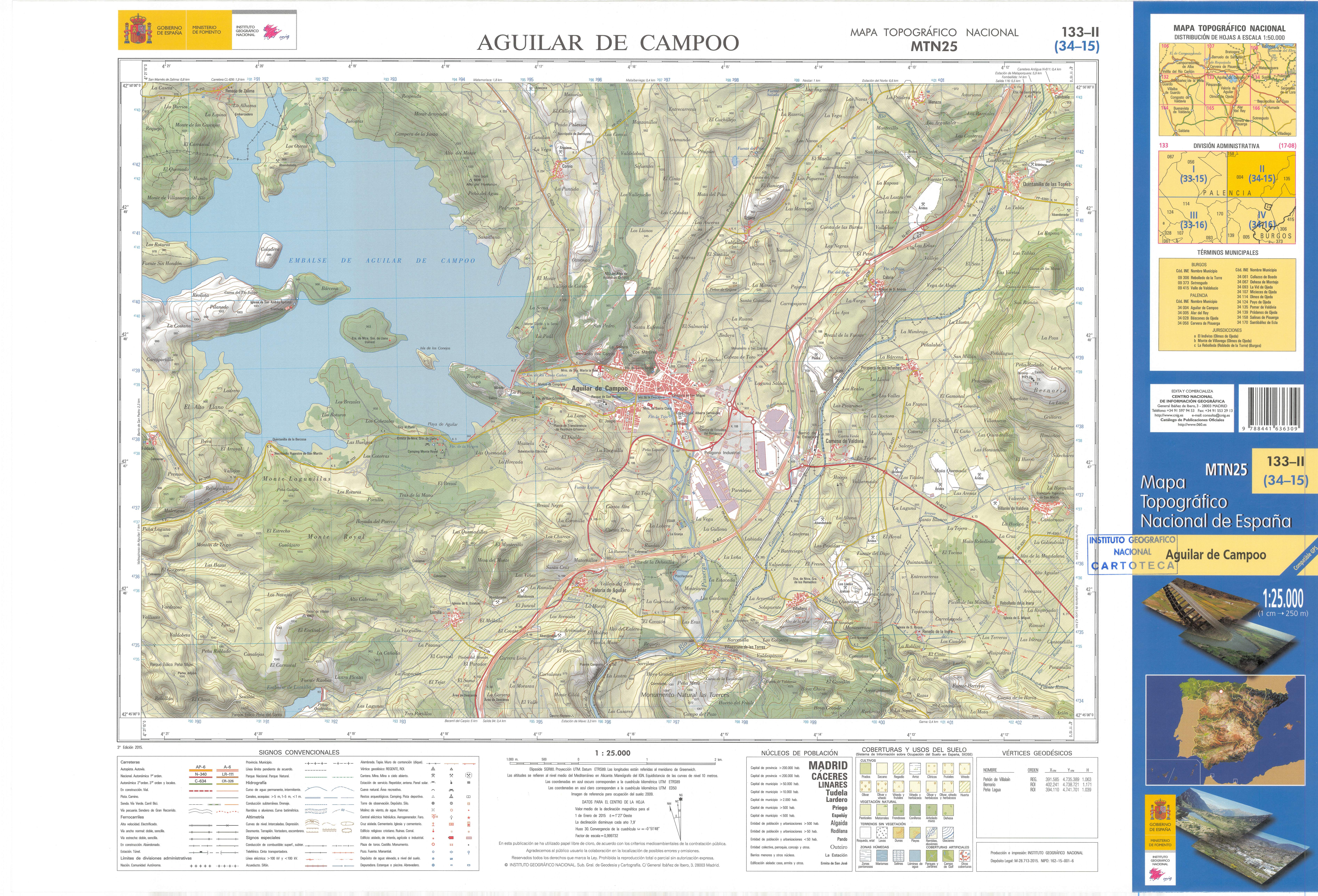 Fragment 0133c2 of the National Topographic Map of Spain in 2015 at a scale of 1:25000 printed and scanned with a resolution of 250 ppi. It shows Aguilar de Campoo.